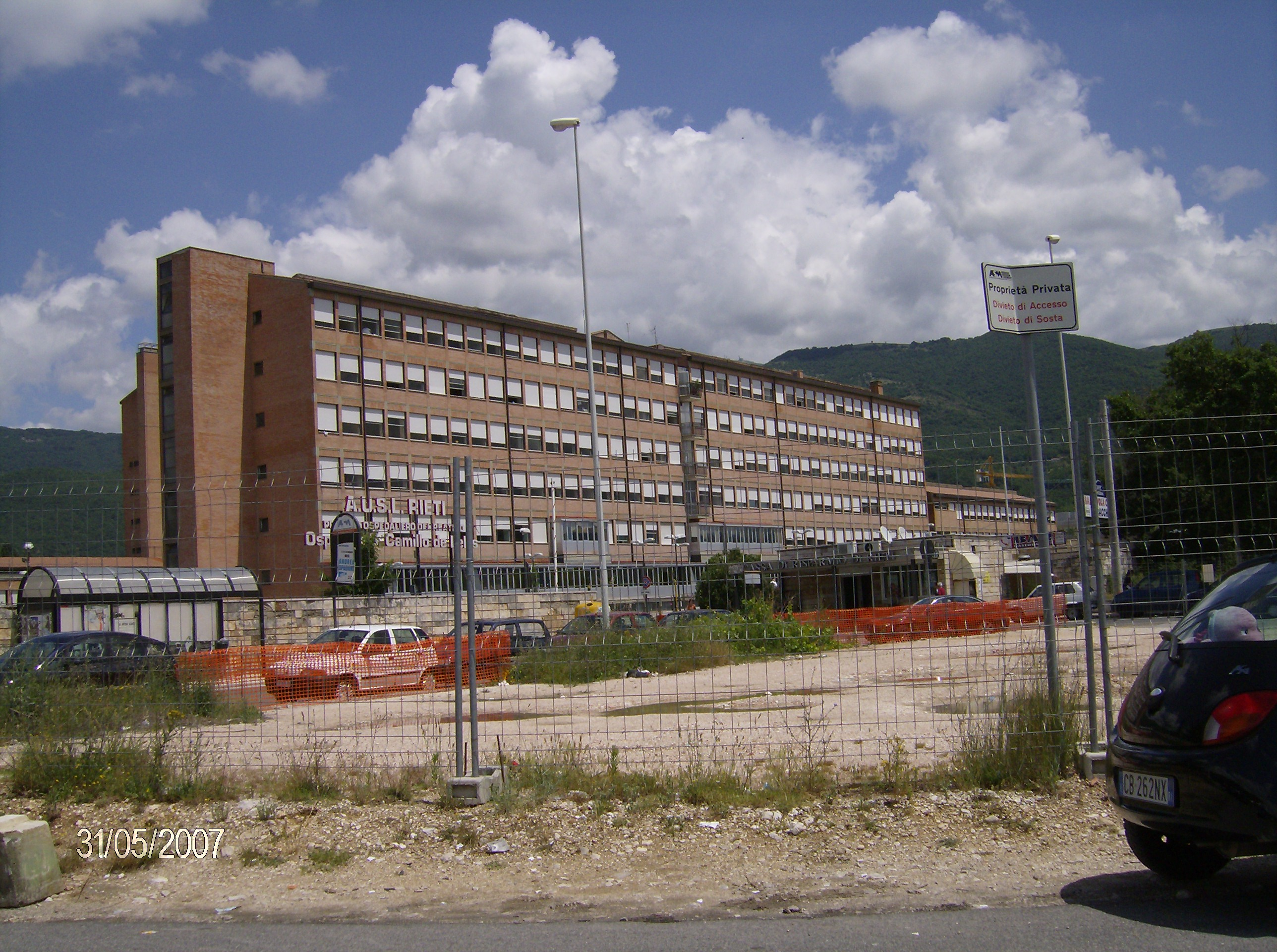 Saint Camillo de Lellis Hospital of Rieti, Lazio, Italy